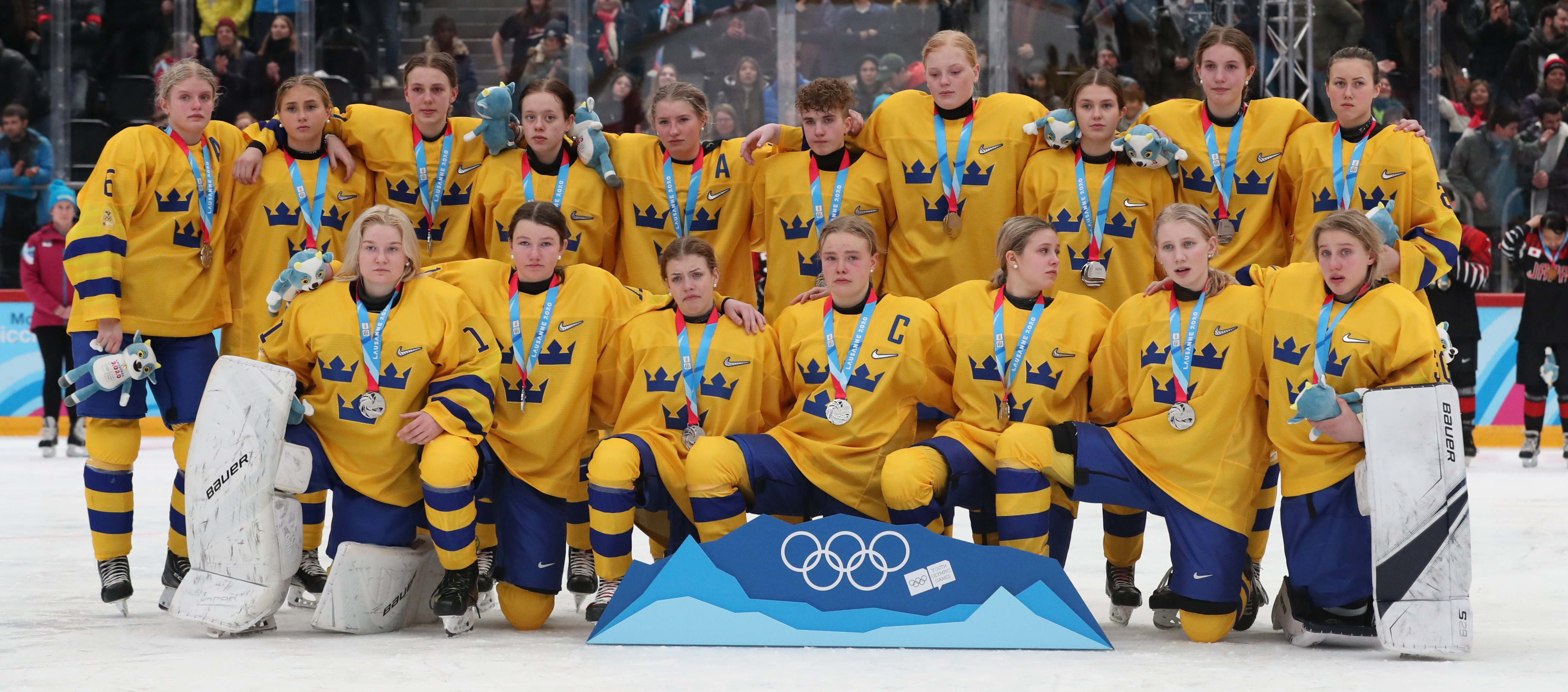 Victory Ceremony (Mascot and Medal Ceremony) at the Women's Ice Hockey Tournament at the 2020 Winter Youth Olympics in Lausanne: Japan (Gold medal), Sweden (Silver medal) and Slovakia (Bronze medal)